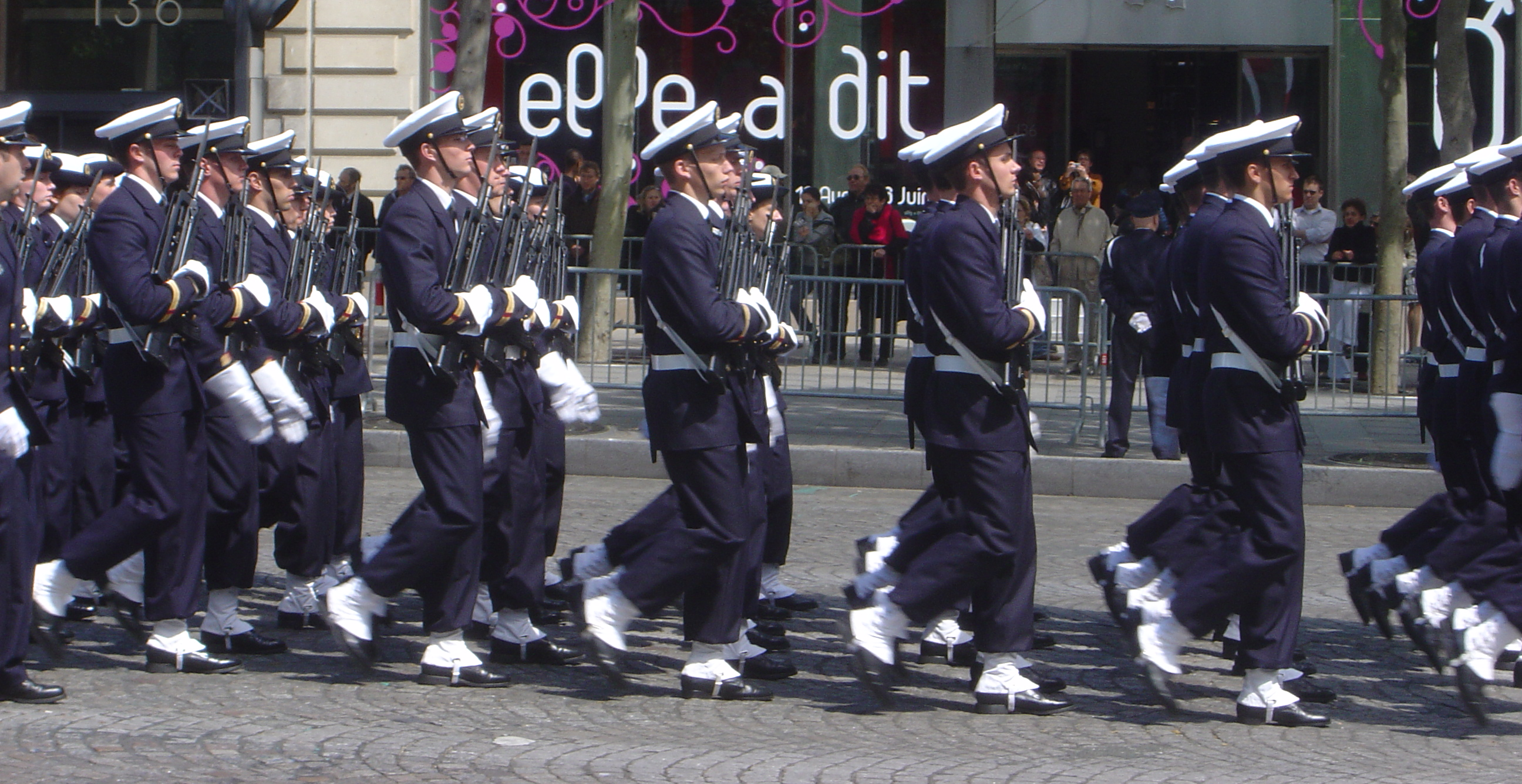 Cadets of the French naval college (for NCO) parading on the Champs-Élysées (Paris) on May 8, 2005.